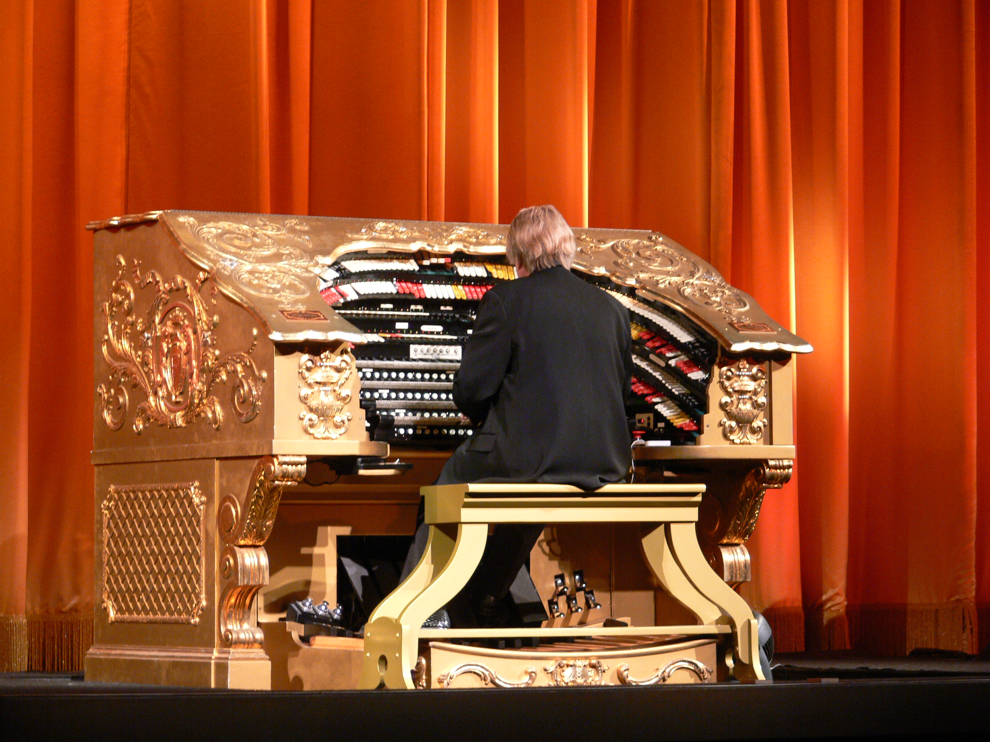 El Capitan Theater, 6838 Hollywood Boulevard, Los Angeles, California A staff organist plays the 4/37 Mighty Wurlitzer (originally installed in 1929 at the San Francisco Fox Theatre) before the pre-movie show starts.